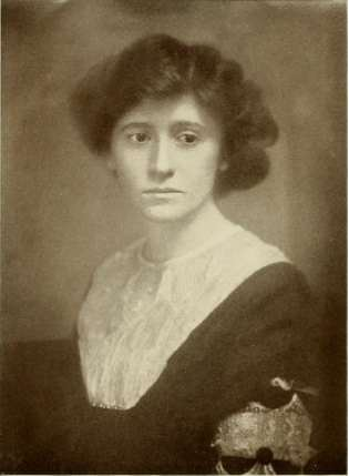 Notable women of St. Louis, 1914; by Johnson, Anne (André) "Mrs. Charles P. Johnson", 1871- Publication date 1914 Topics Women Publisher [St. Louis, Woodward Collection library_of_congress; americana Digitizing sponsor Sloan Foundation Contributor The Library of Congress Language English Call number 273387 Camera Canon 5D Identifier notablewomenofst00john Identifier-ark ark:/13960/t0tq66z8n Identifier-bib 00145723176 Ocr ABBYY FineReader 8.0 Openlibrary_edition OL6566619M Openlibrary_work OL7734088W Pages 522 Possible copyright status NOT_IN_COPYRIGHT Ppi 300 Scandate 20090203222701 Scanfactors 4 Scanner Scanningcenter capitolhill Full catalog record MARCXML